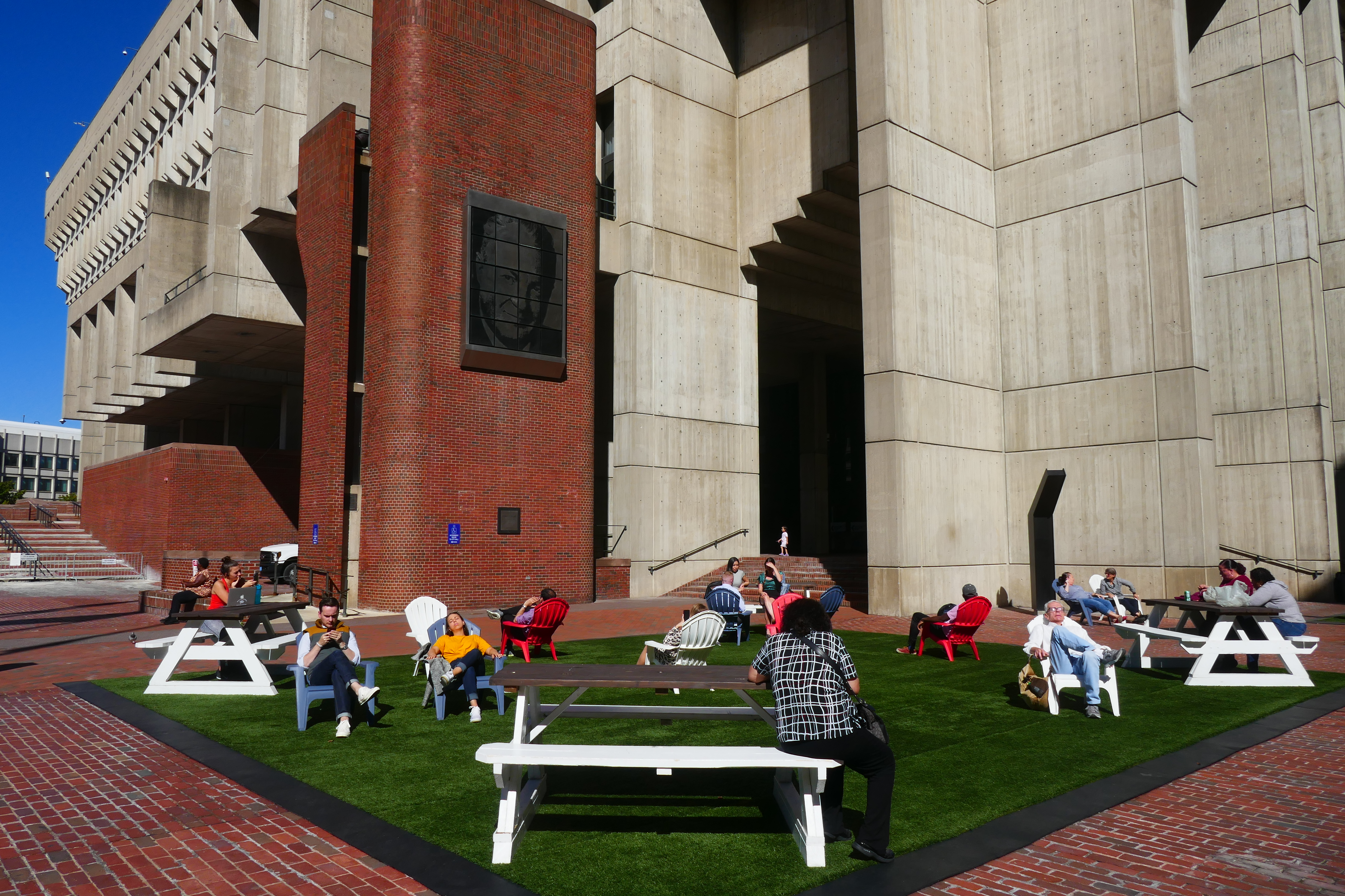 Artificial turf, tables, and chairs installed outside of Boston City Hall